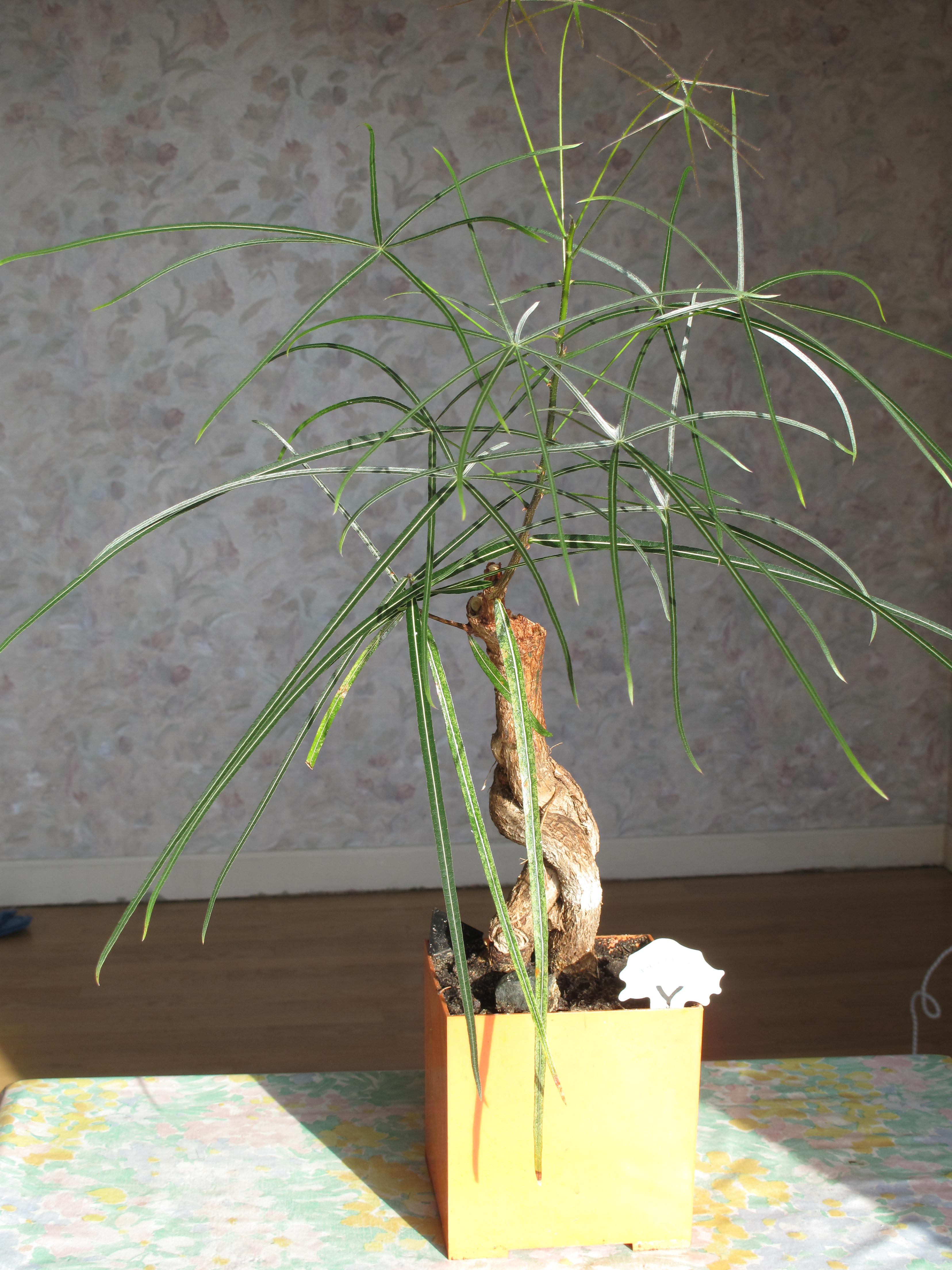 Brachychiton (rupestris ?) bonsai. Aged 10 years app. Bought 6 years ago.